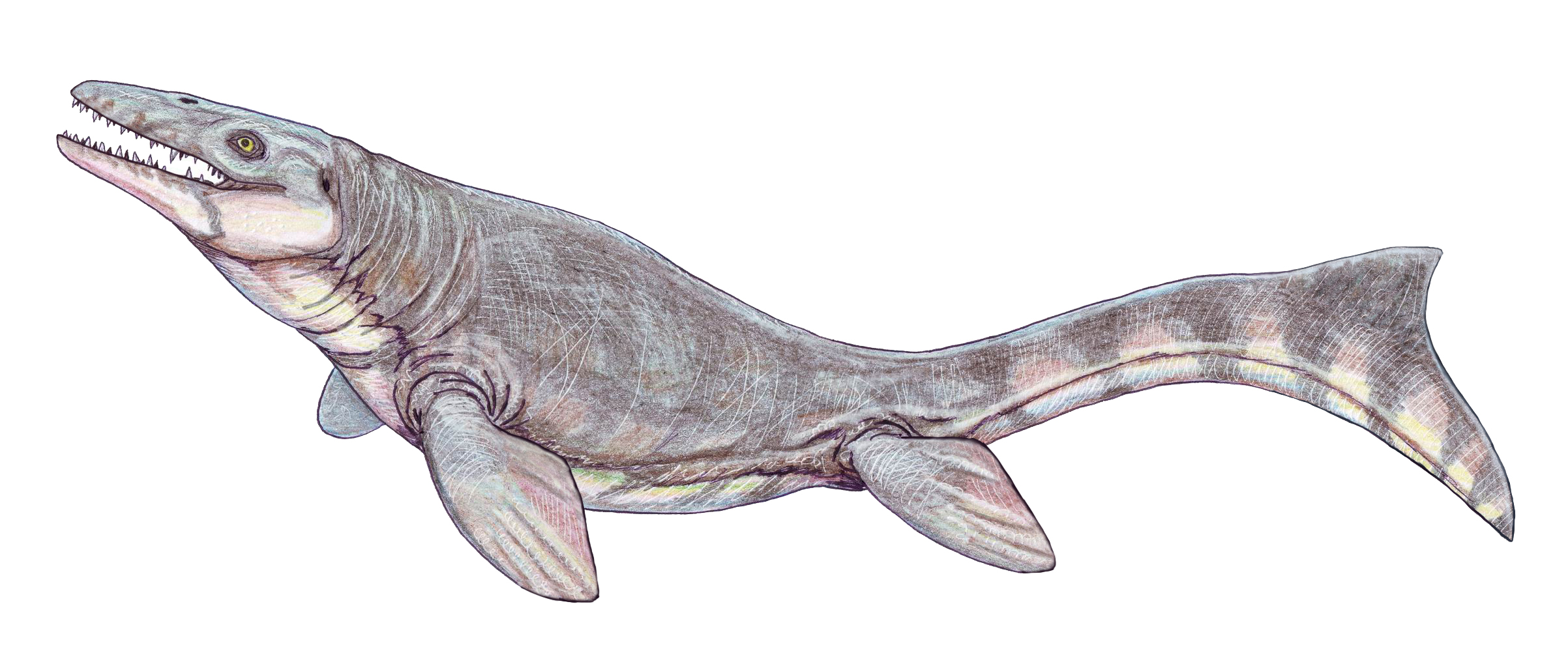 Prognathodon waiparensis - giant mosasaur from maastrichtian of New Zealand